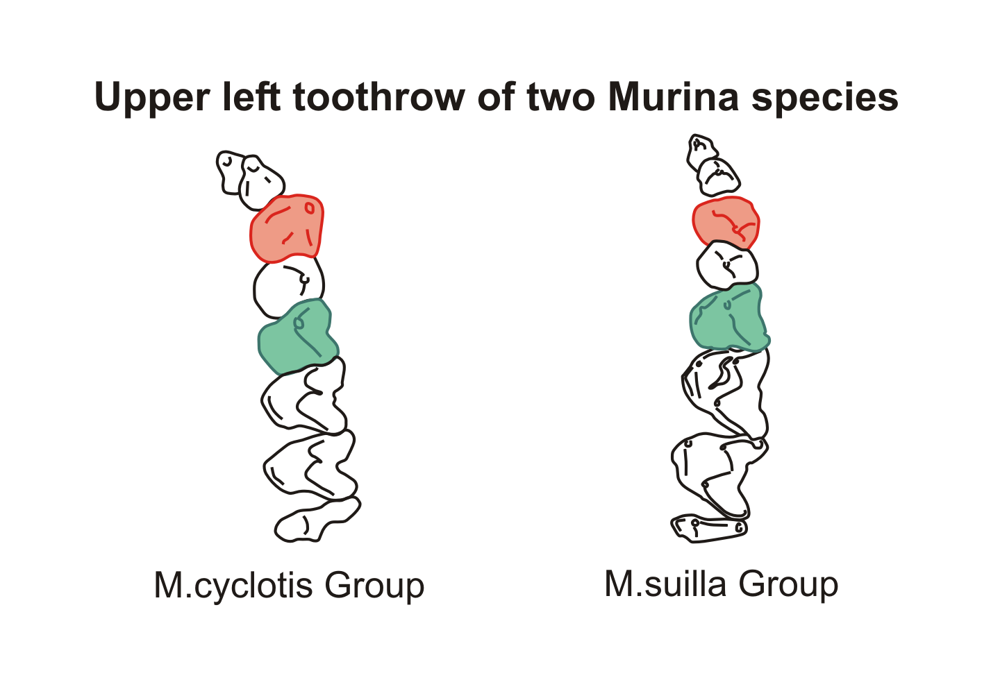 Size difference between upper canine and upper second premolar in the two different group of genus Murina, according to Francis, 2008